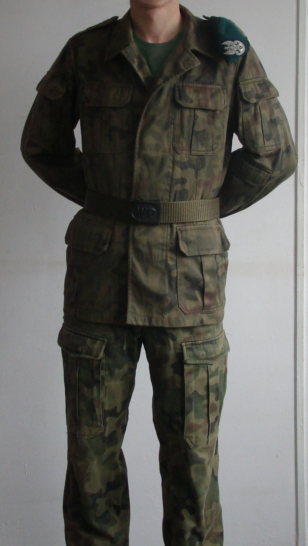 Combat uniform wz. 127A/MON of Polish Army